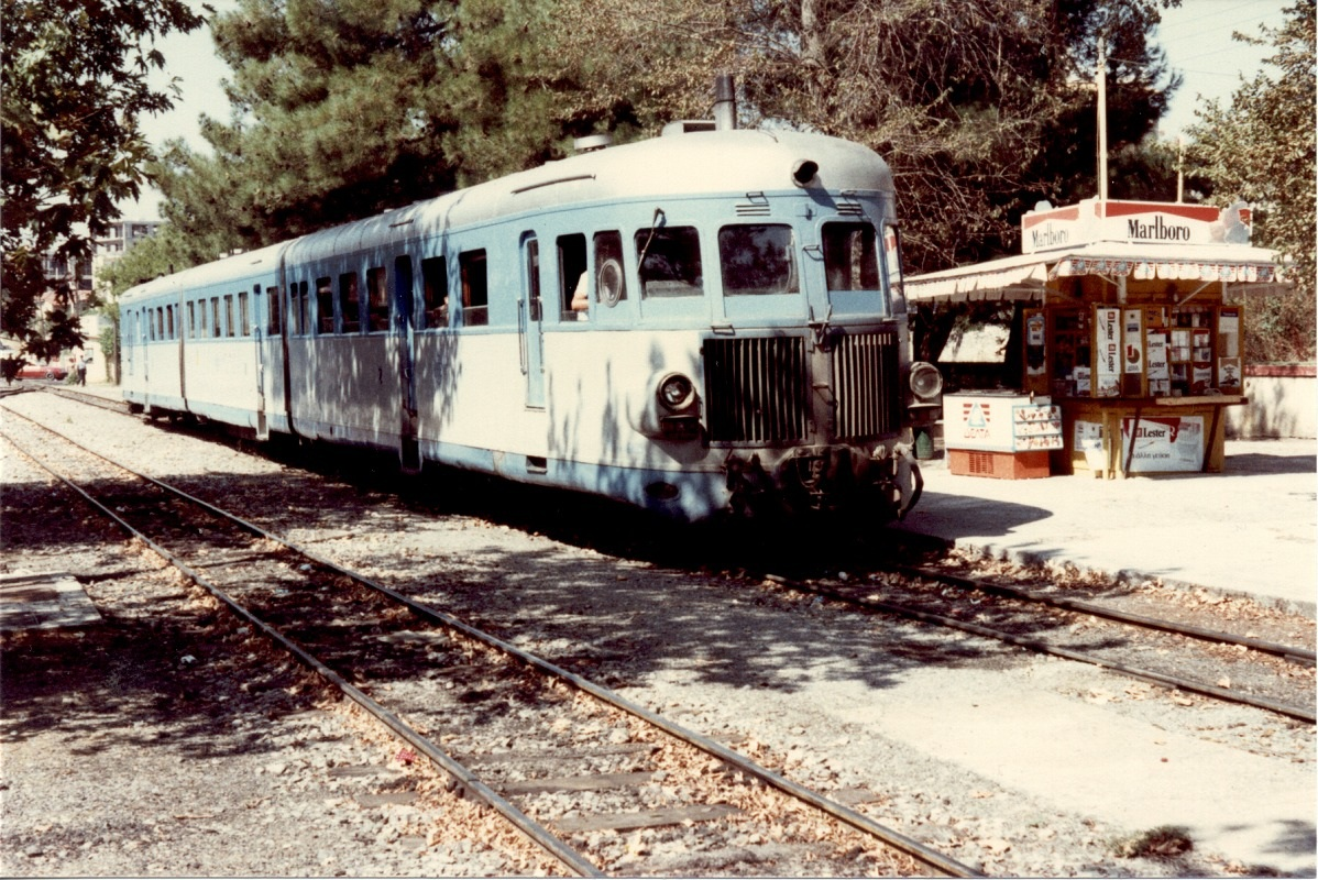 DeDietrich DMU 6405 of OSE enters Tripolis station, Greece.